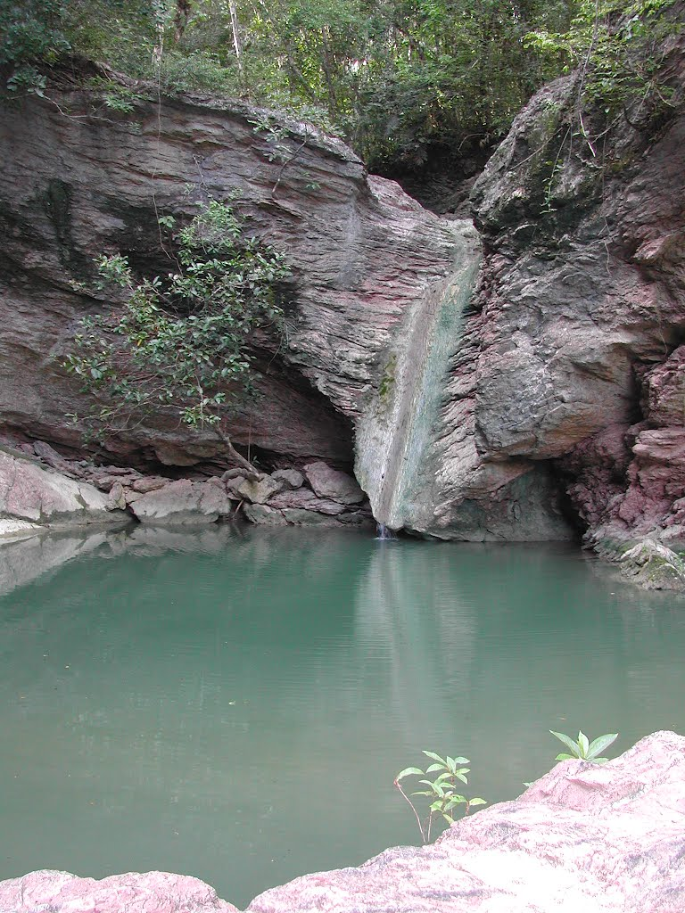 Plunge pool on tributory leading to Vero River, Tutuala, Lautem, Timor-Leste